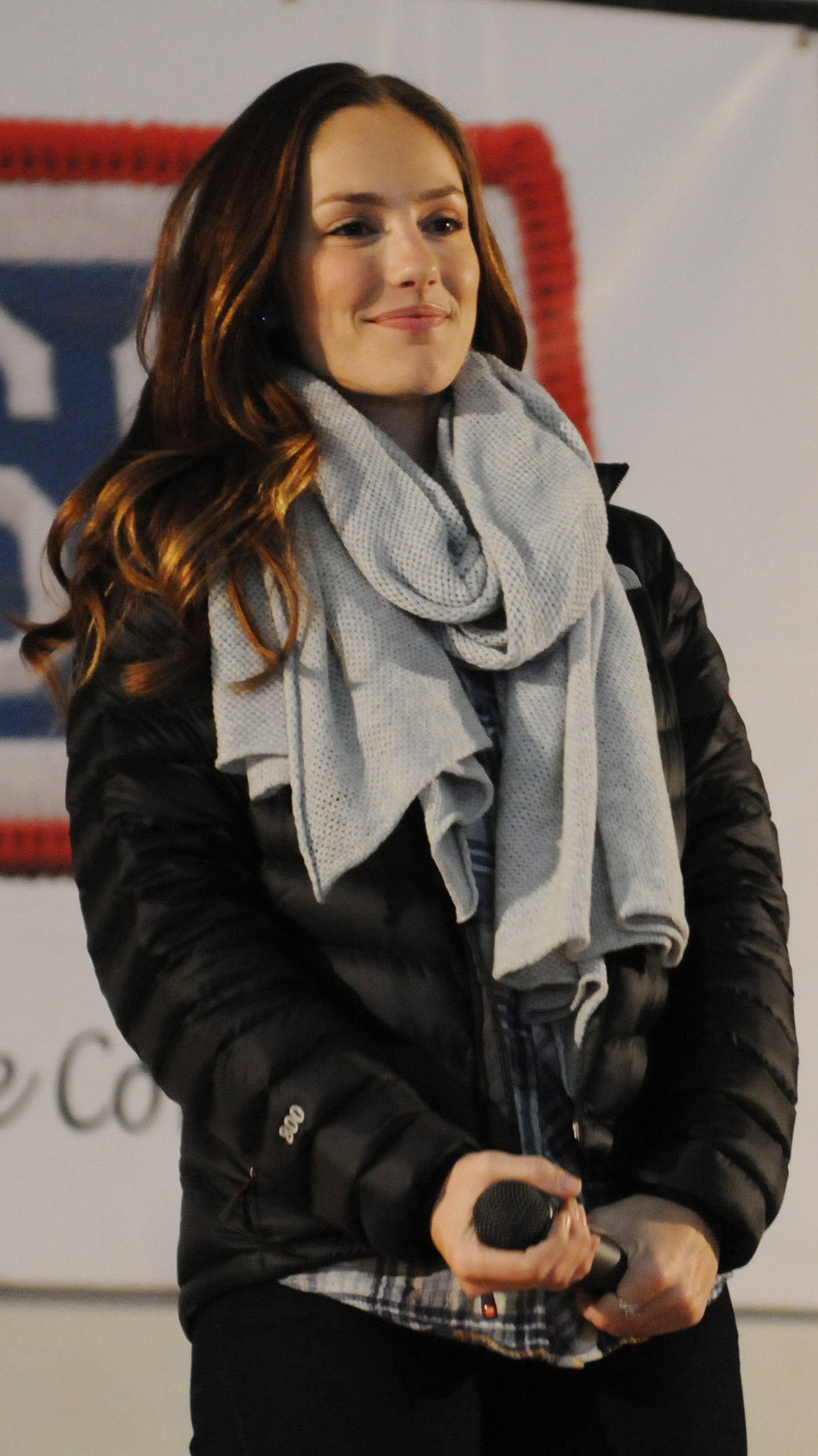 Actress Minka Kelly, who starred in the TV series “Friday Night Lights,” greets Service members during a USO Holiday Troop Visit Dec. 16, 2011, at Bagram Airfield, Afghanistan. The tour also included American Idol season six winner Jordin Sparks, former NBA basketball star Robert Horry and radio host Thomas “Nephew Tommy” Miles.